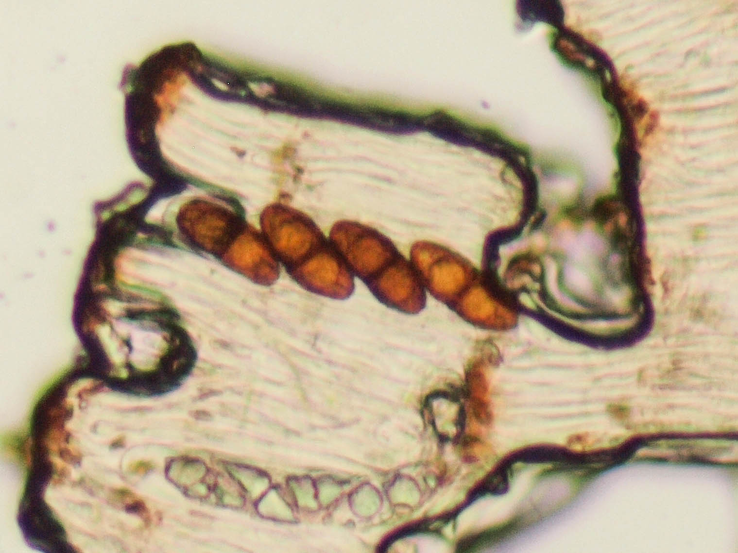 Spores of Solorina saccata